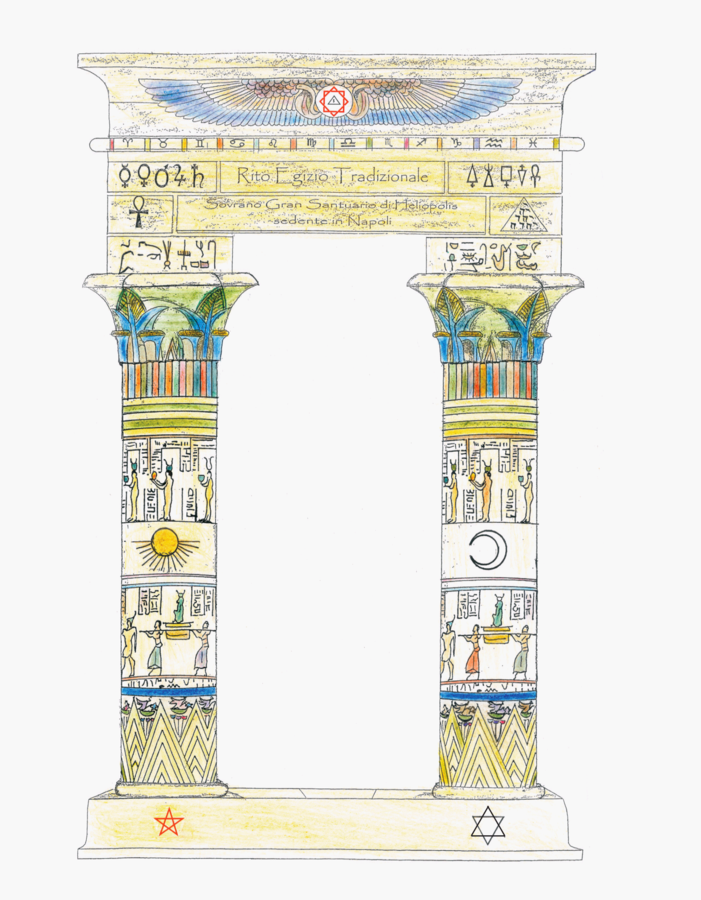 Emblema Rito Egizo Tradizionale